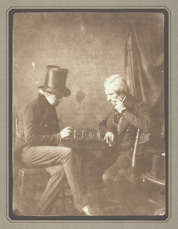 Salted paper print possibly by Henry Fox Talbot